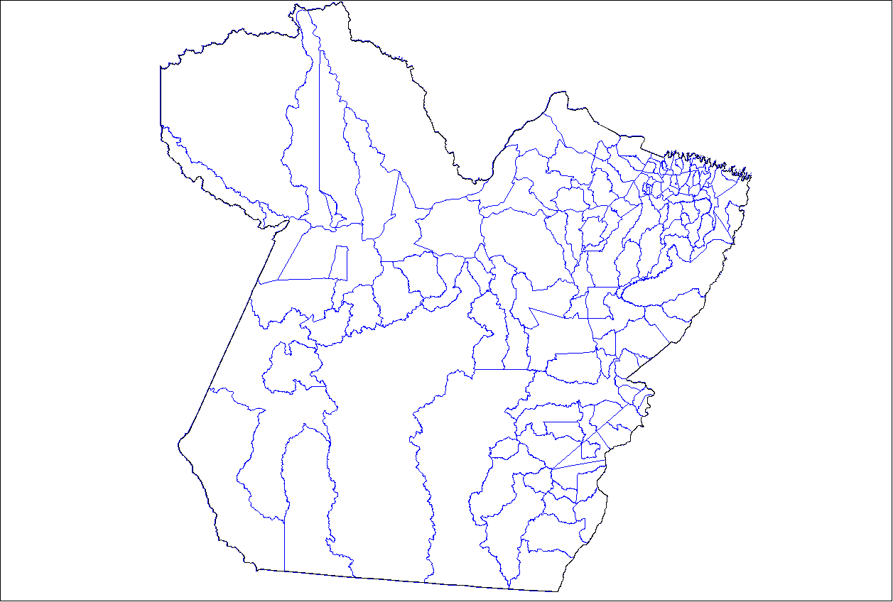 Map of the municipalities of the state of Para, Brazil. Created by Rarelibra 22:01, 24 August 2006 (UTC) for public domain use. Created using MapInfo Professional v8.5 and various mapping resources.